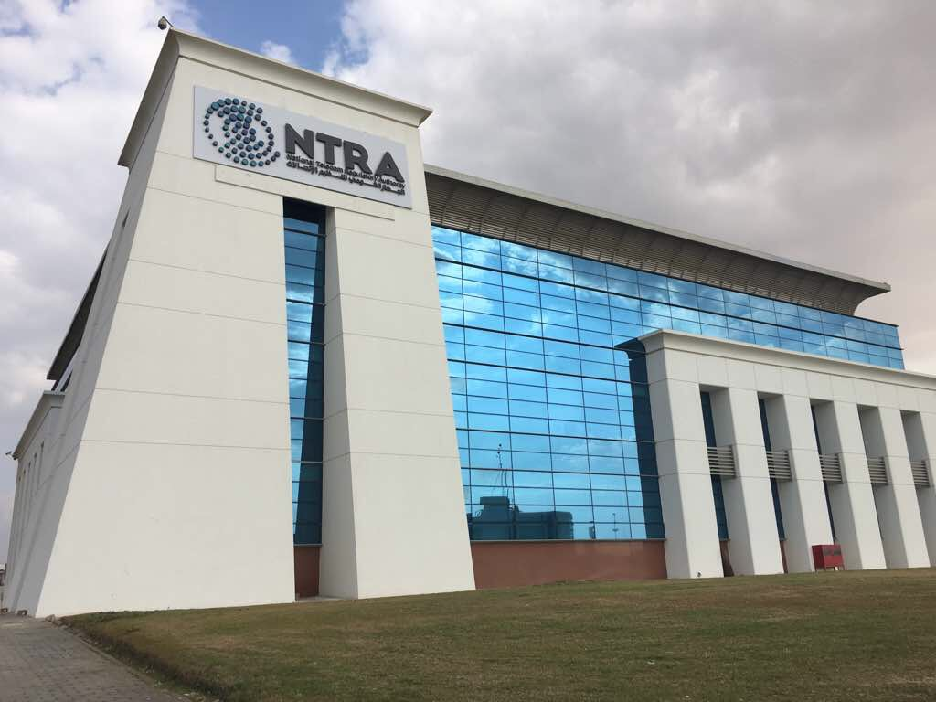 Campus Architecture in Smart Village Egypt